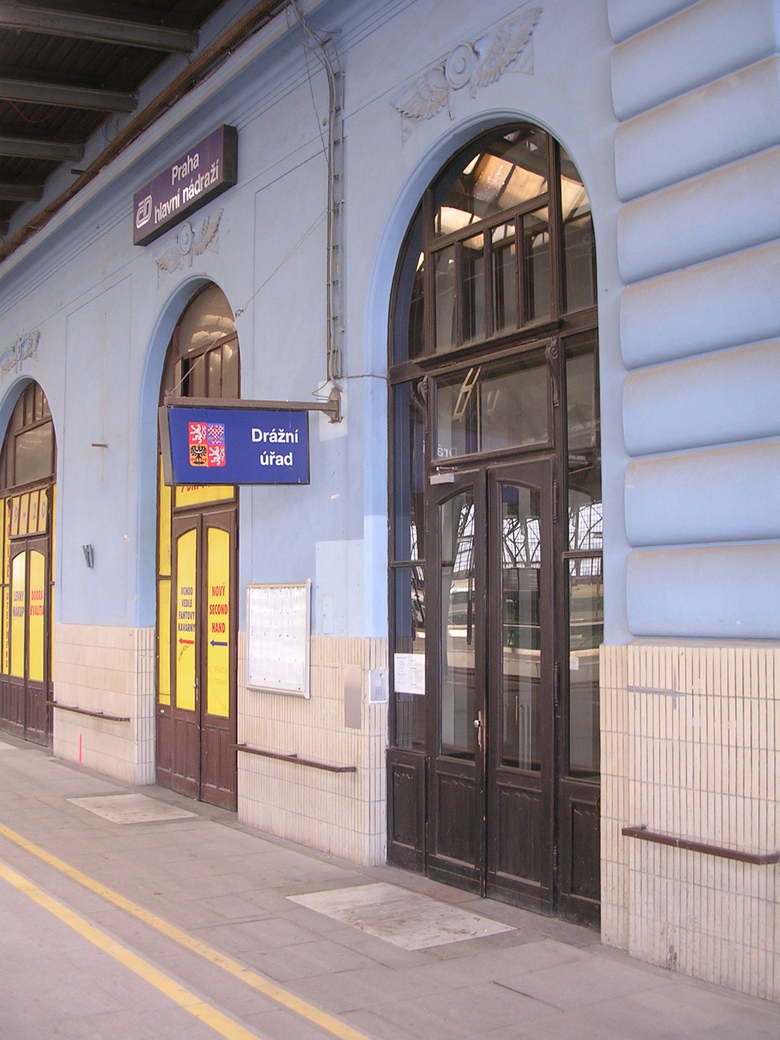 Vinohrady, Prague, the Czech Republic. "Praha hlavní nádraží" train station. Rail Authority of the Czech Republic.